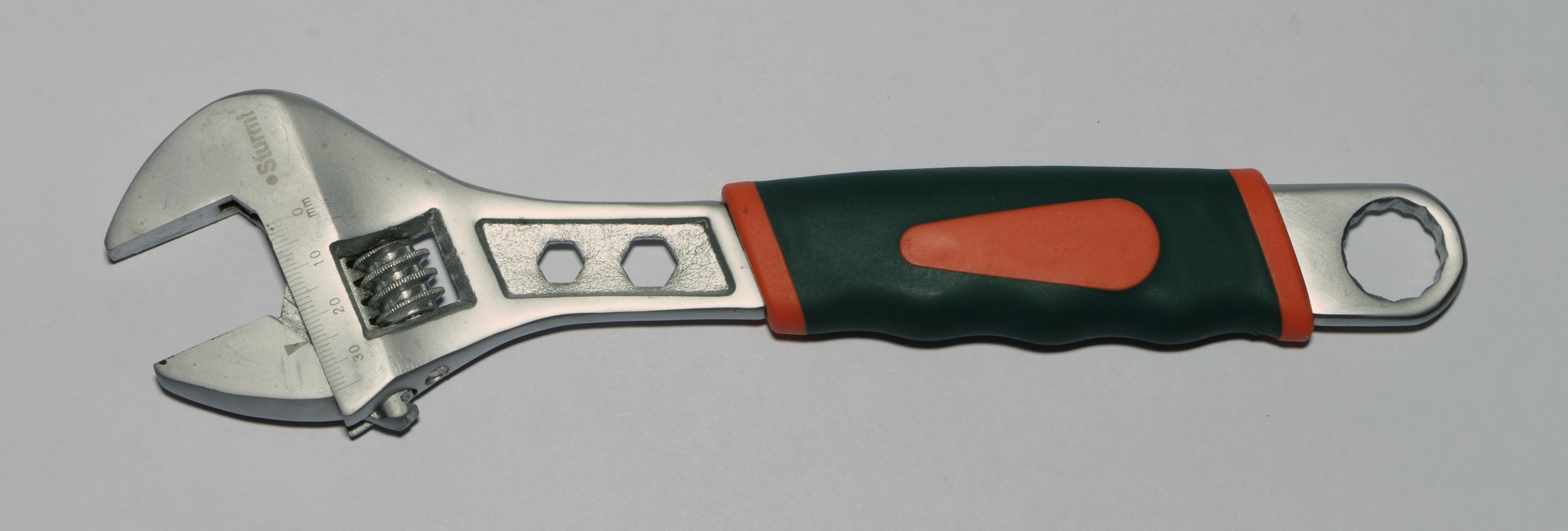 Adjustable wrench